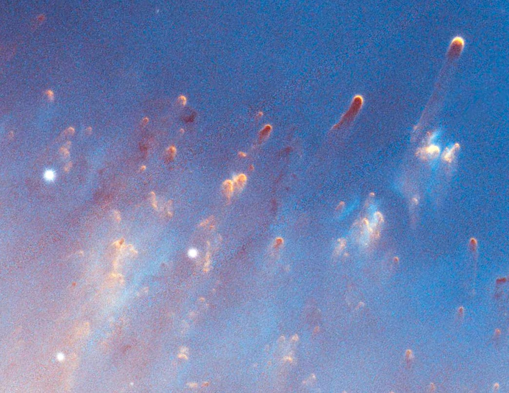 Close-Up of the Helix Nebula